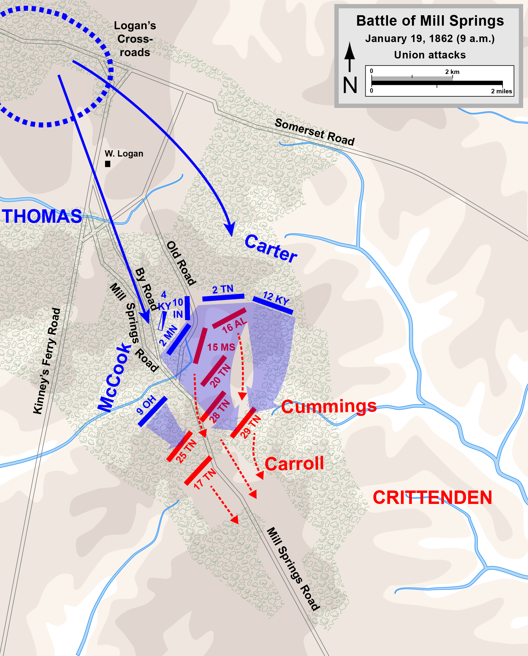 Map of Battle of Mill Springs, Kentucky, of the American Civil War—Union attacks. Drawn in Adobe Illustrator CS5 by Hal Jespersen. Graphic source file is available at